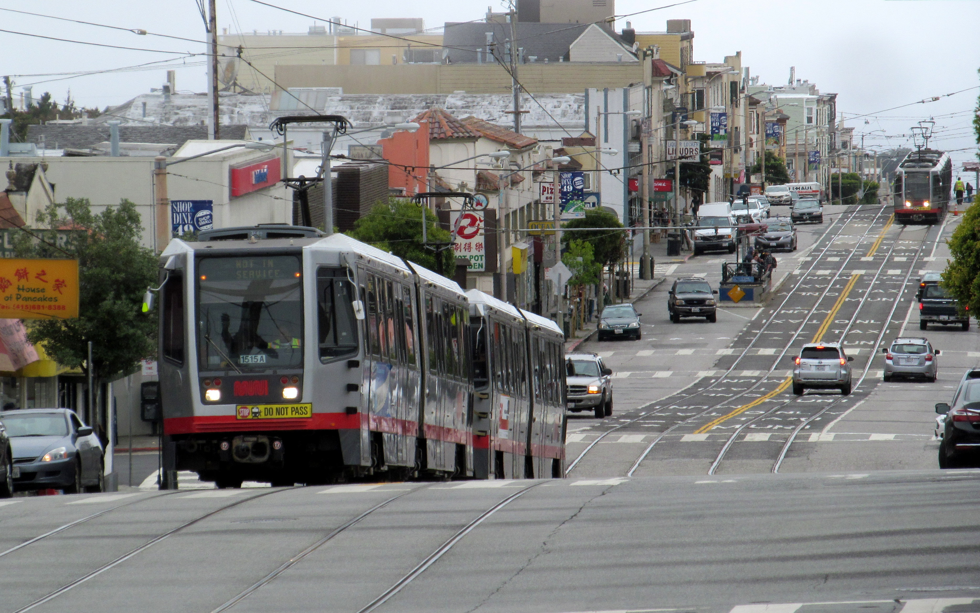 Inbound train at Taraval and 19th Avenue station in June 2017. In the background, passengers wait at Taraval and 22nd Avenue, while an outbound train is at Taraval and 23rd Avenue.